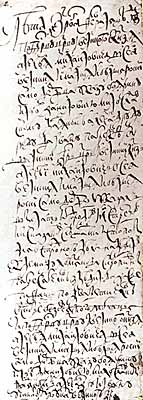 Ukase of Alexis of Russia (1663)